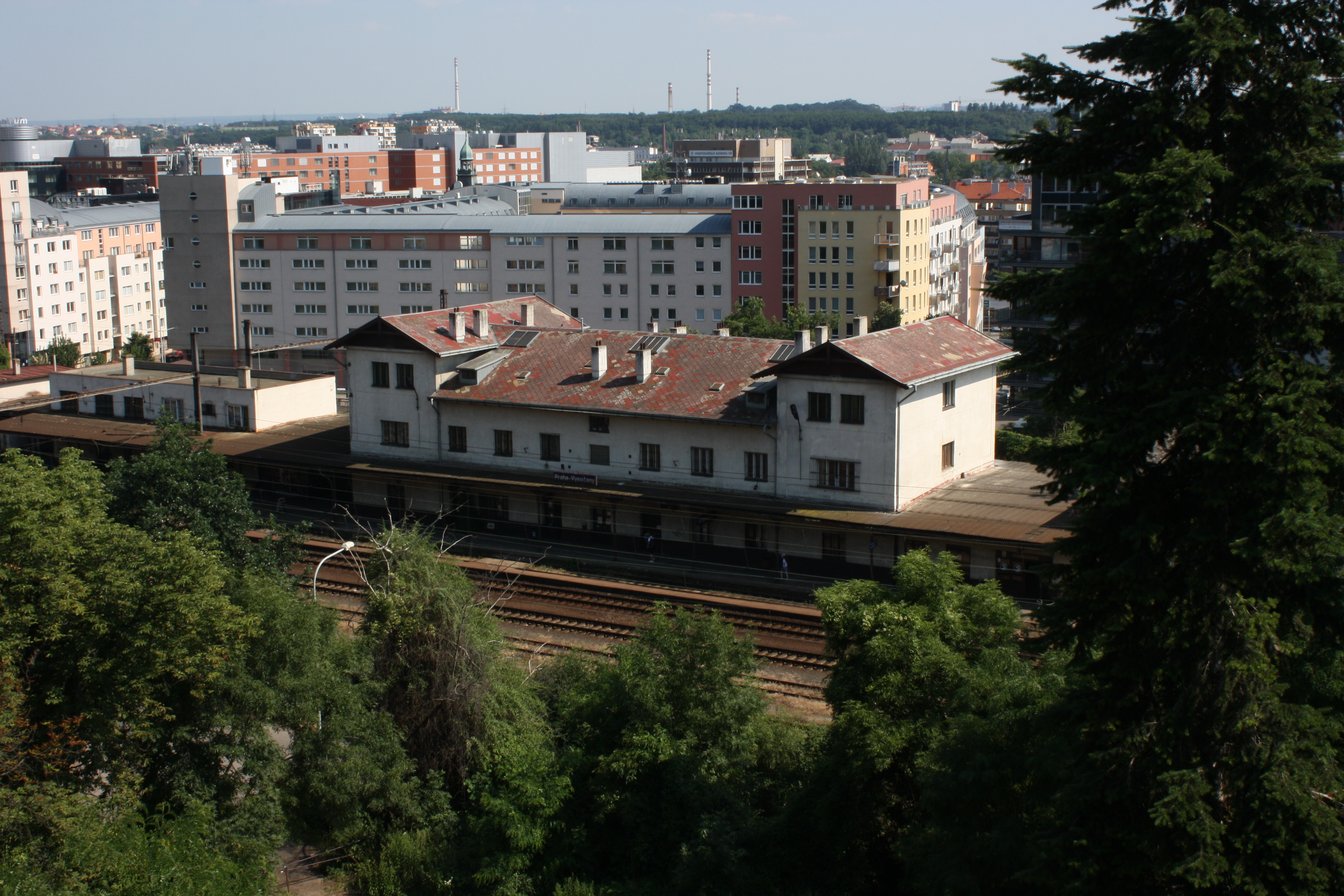 Building of train station Praha-Vysočany from Vysočanská street (connecting Vysočany and Prosek). In front of building railyard of Turnov Railway (number 070).